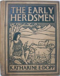 Book cover of "The early herdsmen" by Katharine Elizabeth Dopp, published 1912 in Chicago